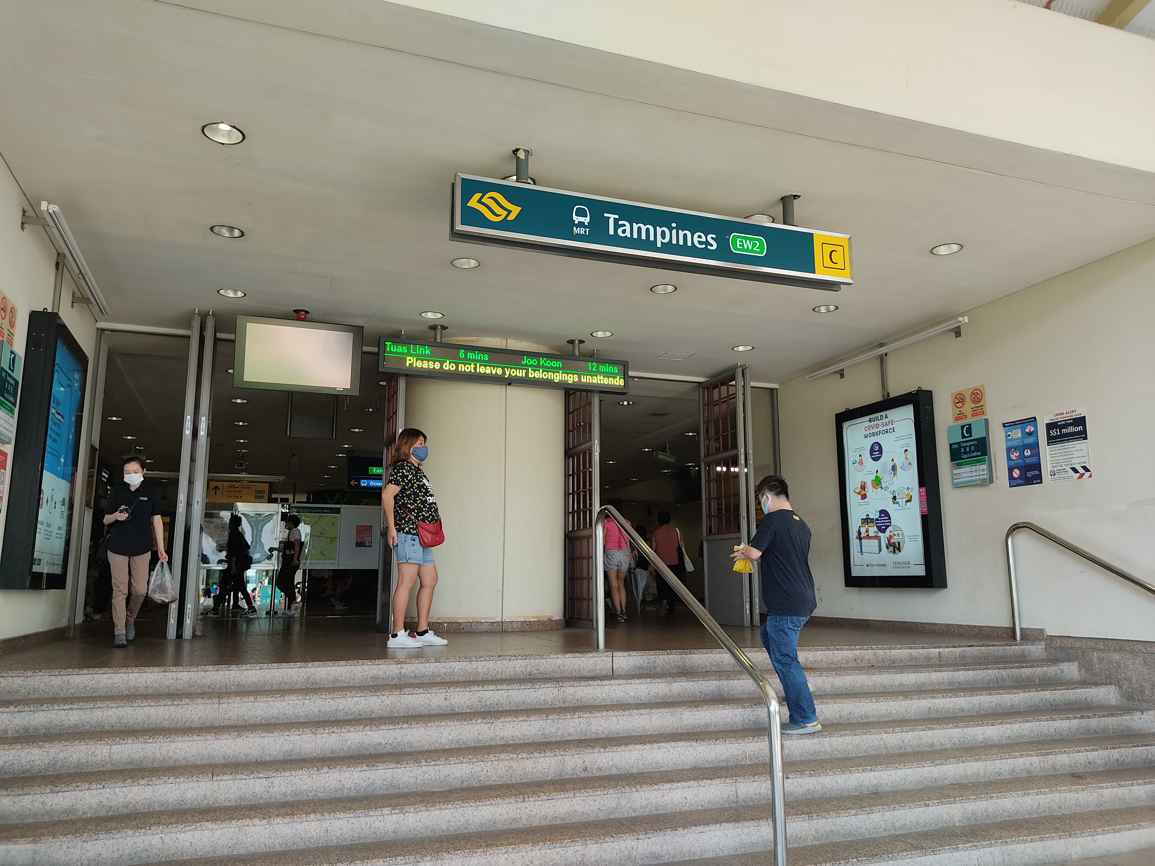 EW2 Tampines MRT Exit C